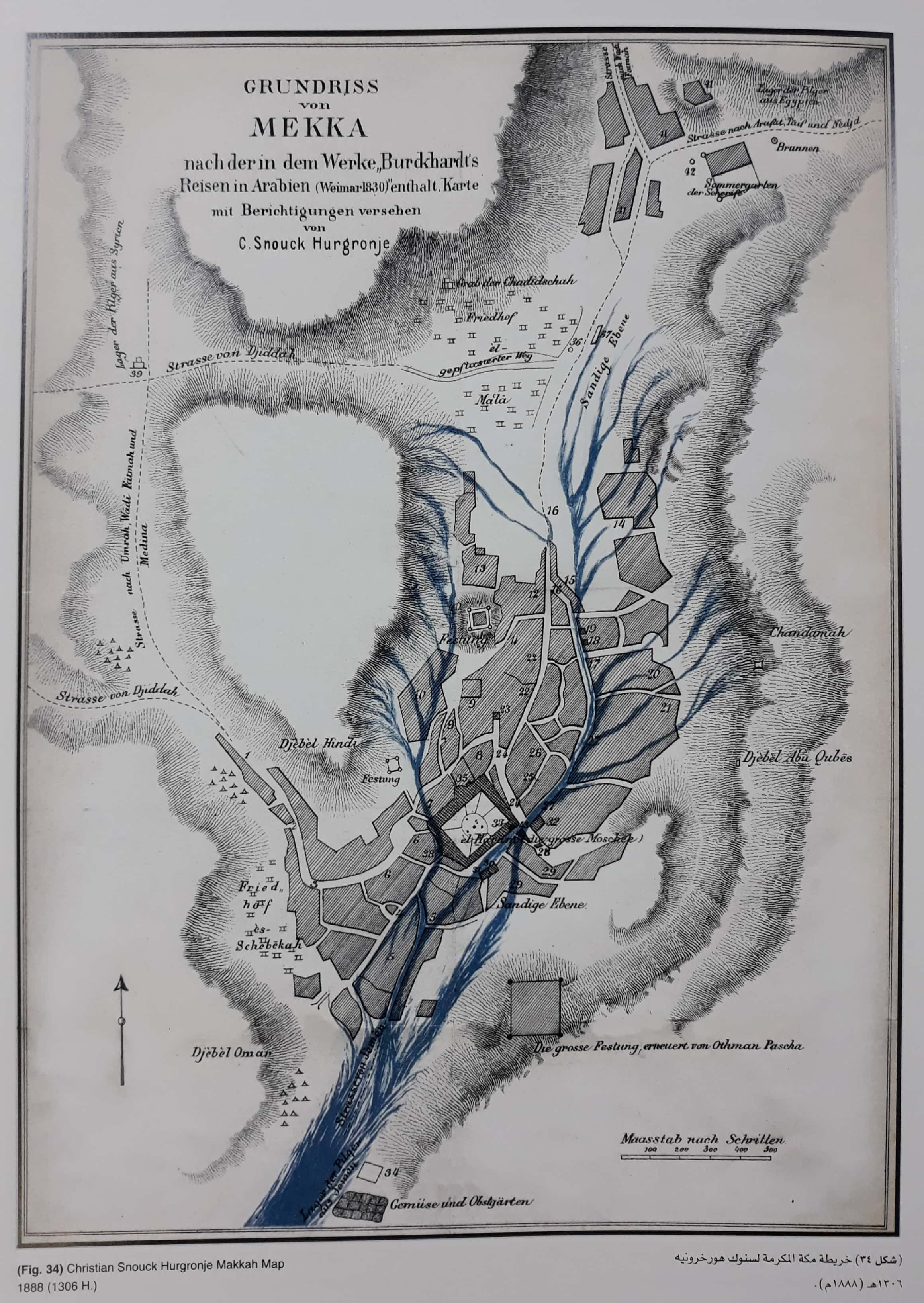 Christian Snouk Hurgronje Makkah Map 1888 (1306 H.).